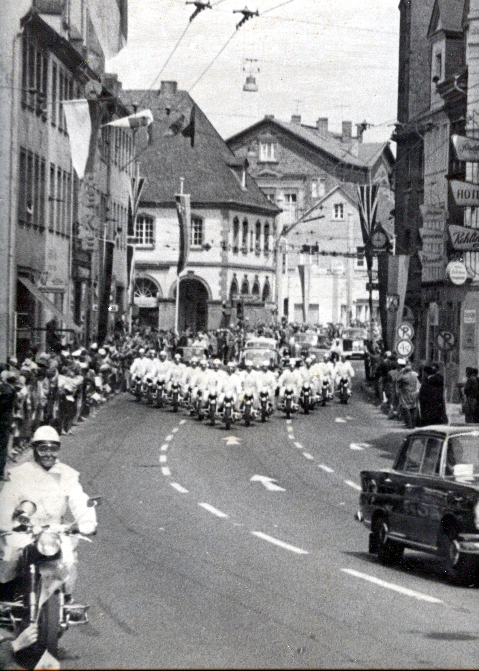 Visit of Elizabeth II of the United Kingdom in Koblenz